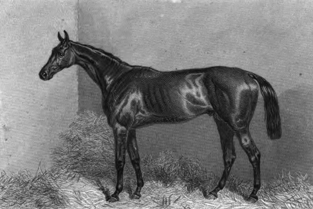 Painting of the 1863 St. Leger winner Lord Clifden